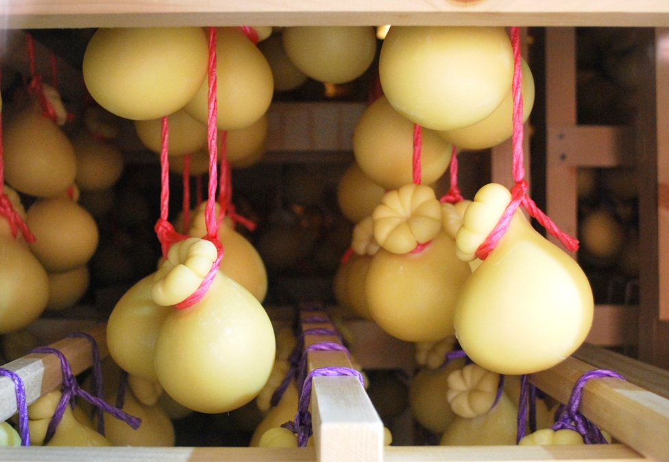 Caciocavallo